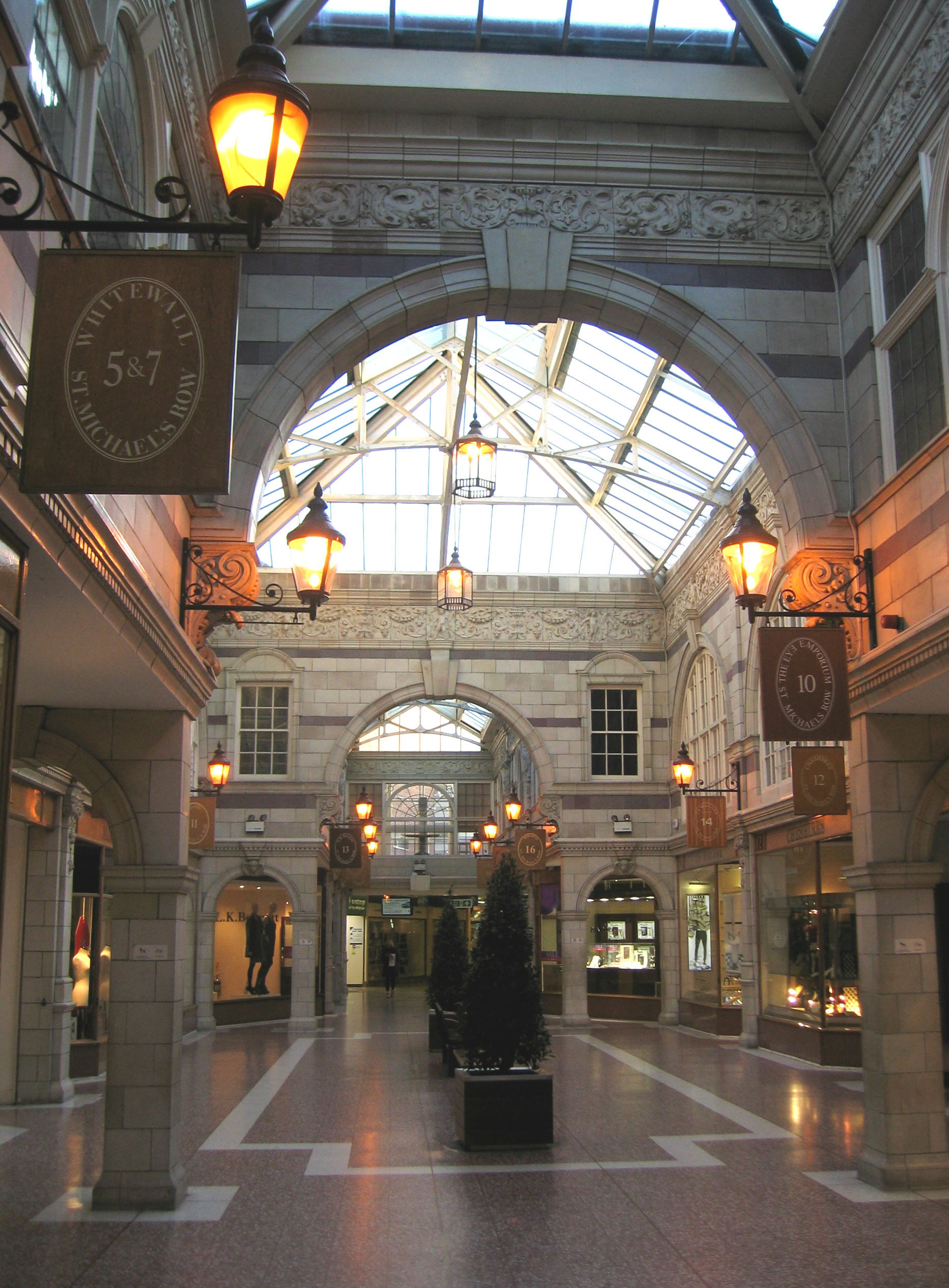 Photograph of the interior of St Michael's Arcade leading to the Grosvenor Shopping Centre, Chester